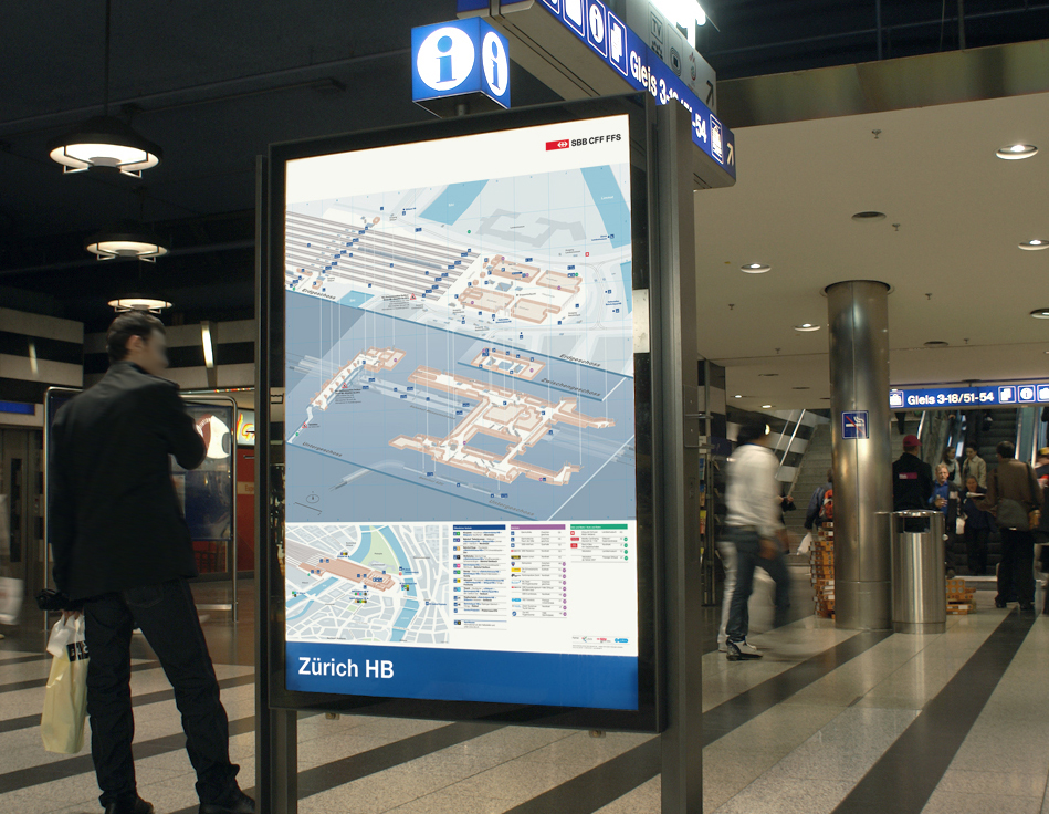 The Trafimage station map at Zurich HB station